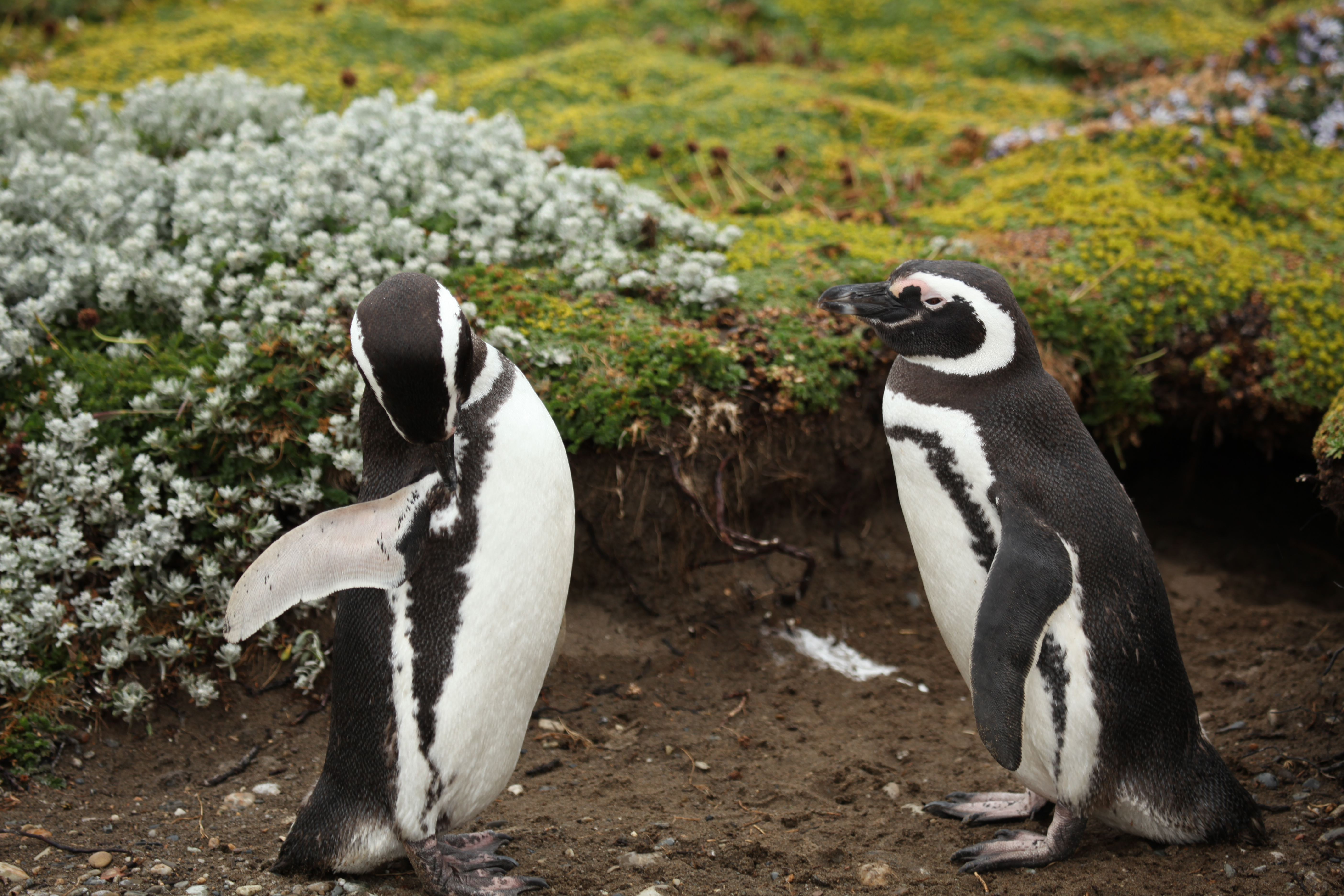 Magellanic Penguins at Otway Sound, Chile